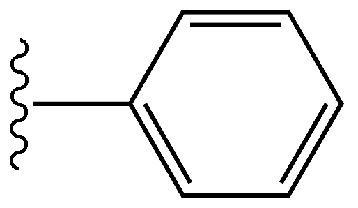 phenyl radical group